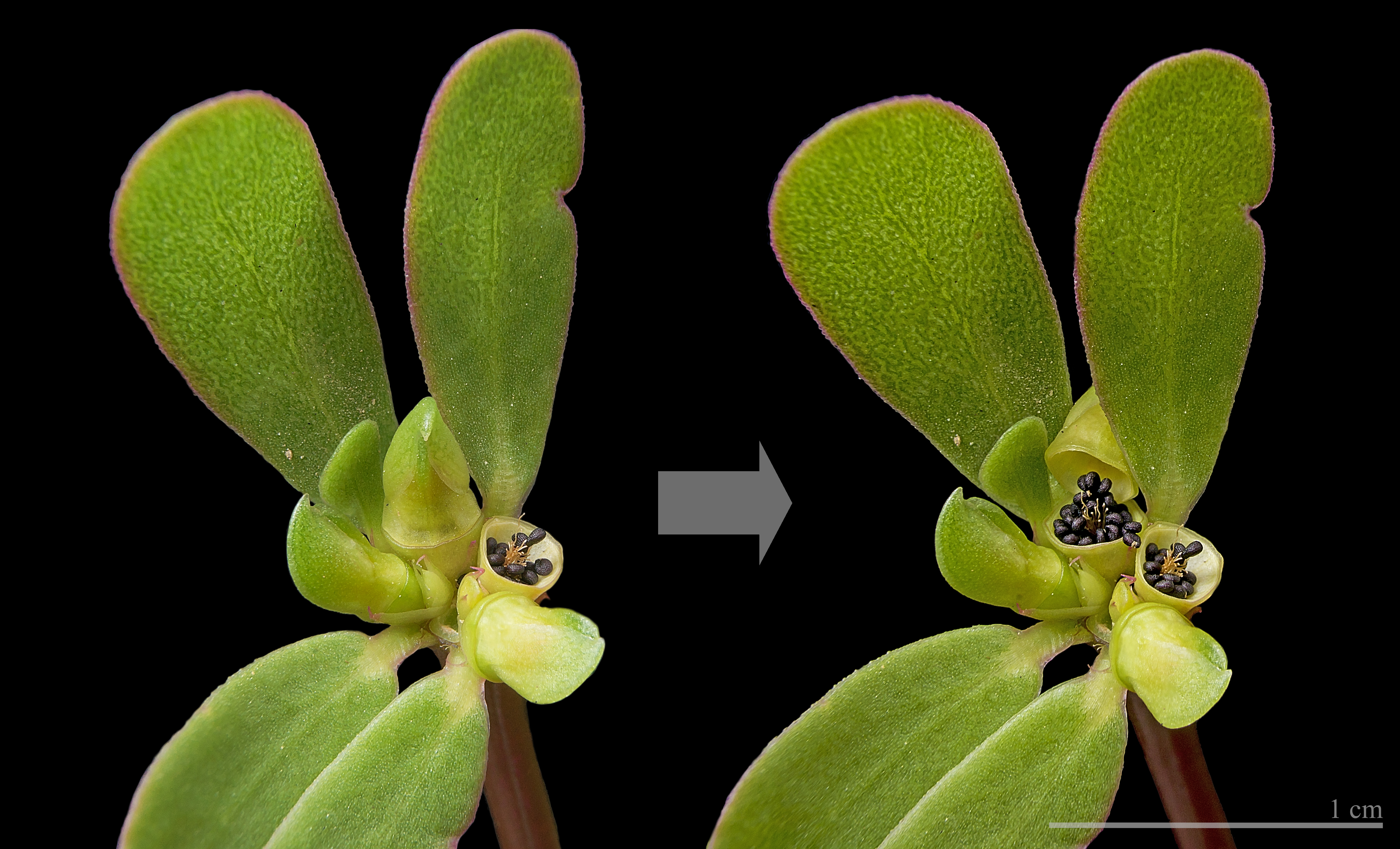 Common Purslane. View of a capsule opening